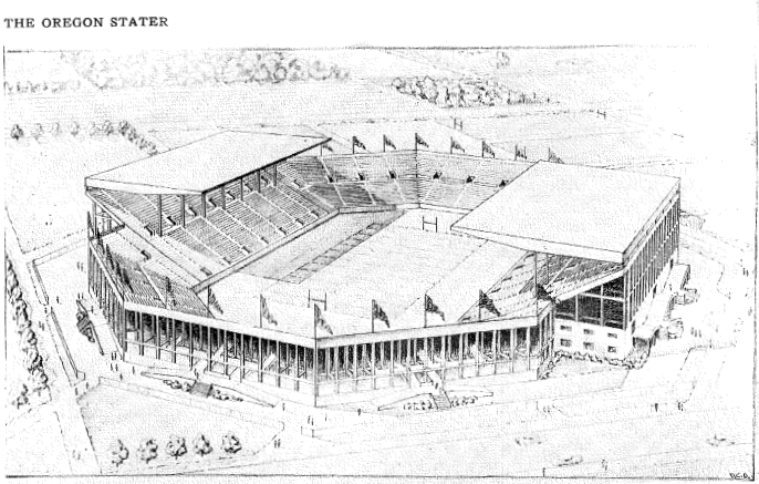 Conception artwork for Oregon State's Parker Stadium, opened 1953.